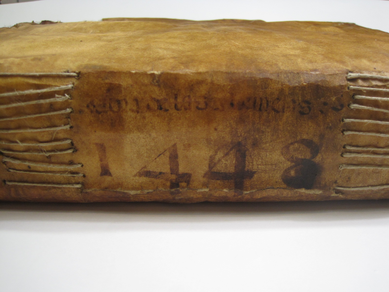 The Llibre del Sindicat Remença (Peasant Syndicate Book) is a handwritten record in Latin between 1448 and 1449 containing the proceedings of meetings between serfs (remences) in various Catalan dioceses to select the syndics, who were entrusted with negotiating the abolition of serfdom with the monarchy due to seigneurial abuses. The 1448 Peasant Syndicate was a precedent that expressed the will of serfs from a wide area, which makes it exceptional.